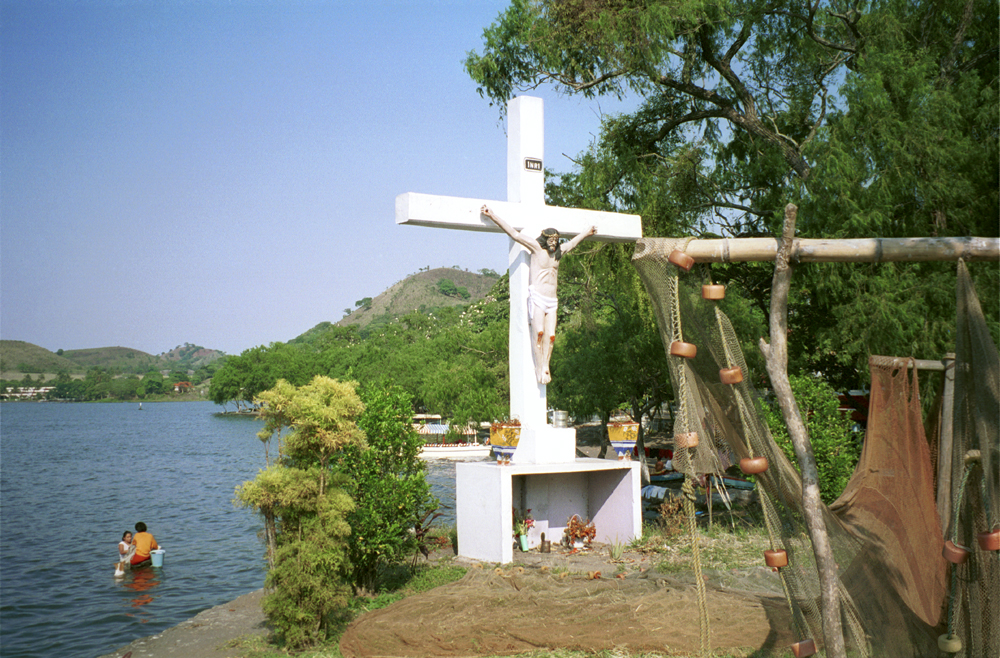 Lake Catemaco more on this webpage link at top of page